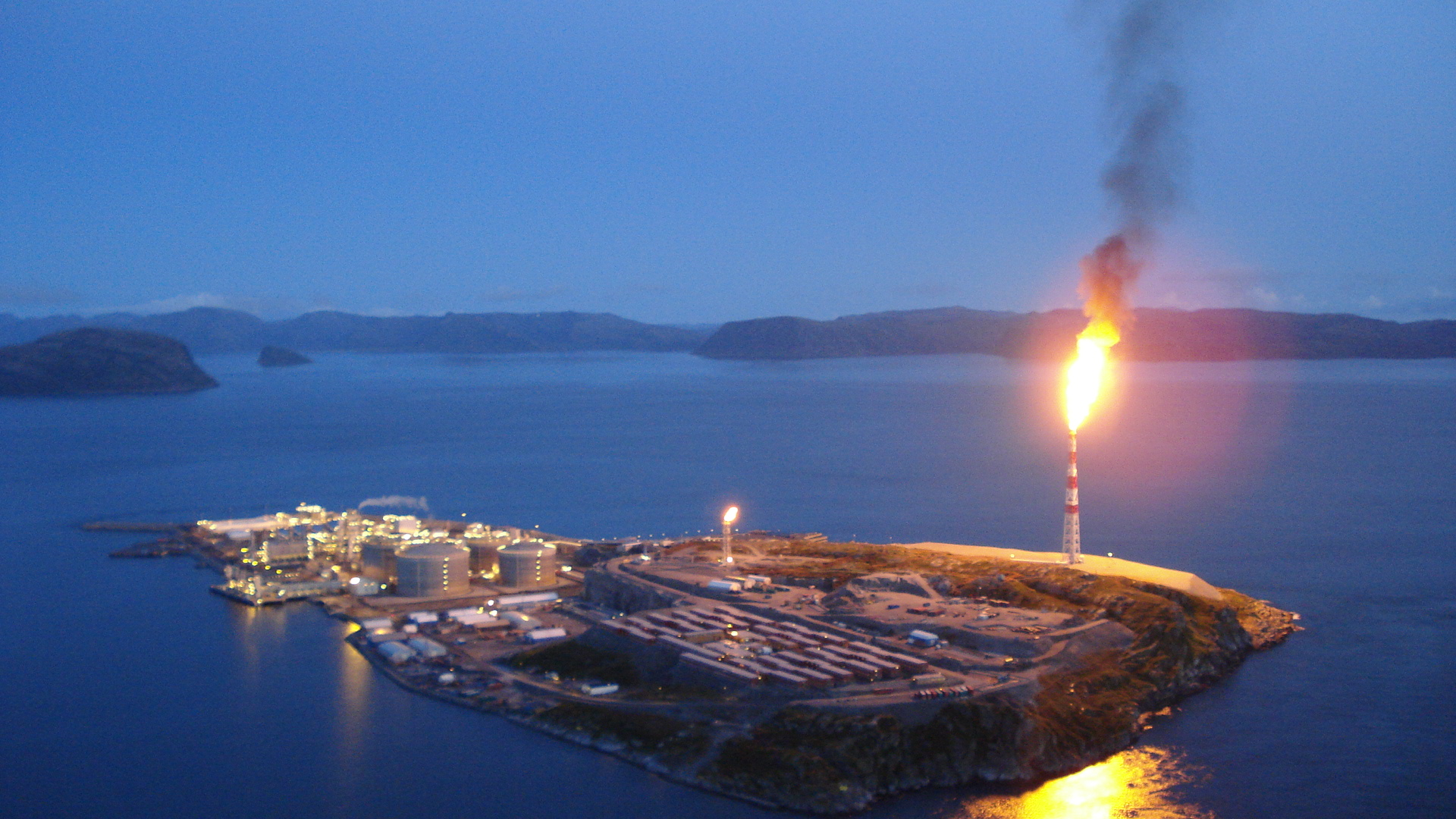 The island of Melkøya in Norway